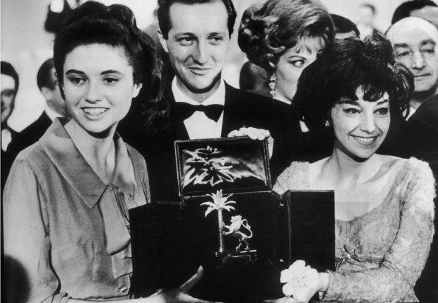 Italian singer Gigliola Cinquetti and Belgian-Italian Patricia Carli celebrate the victory with the song Non ho l'età at the 14th Sanremo Music Festival, 1 February 1964. Cinquetti eventually went on winning also the European Song Contest two months later in Copenhagen, Denmark.